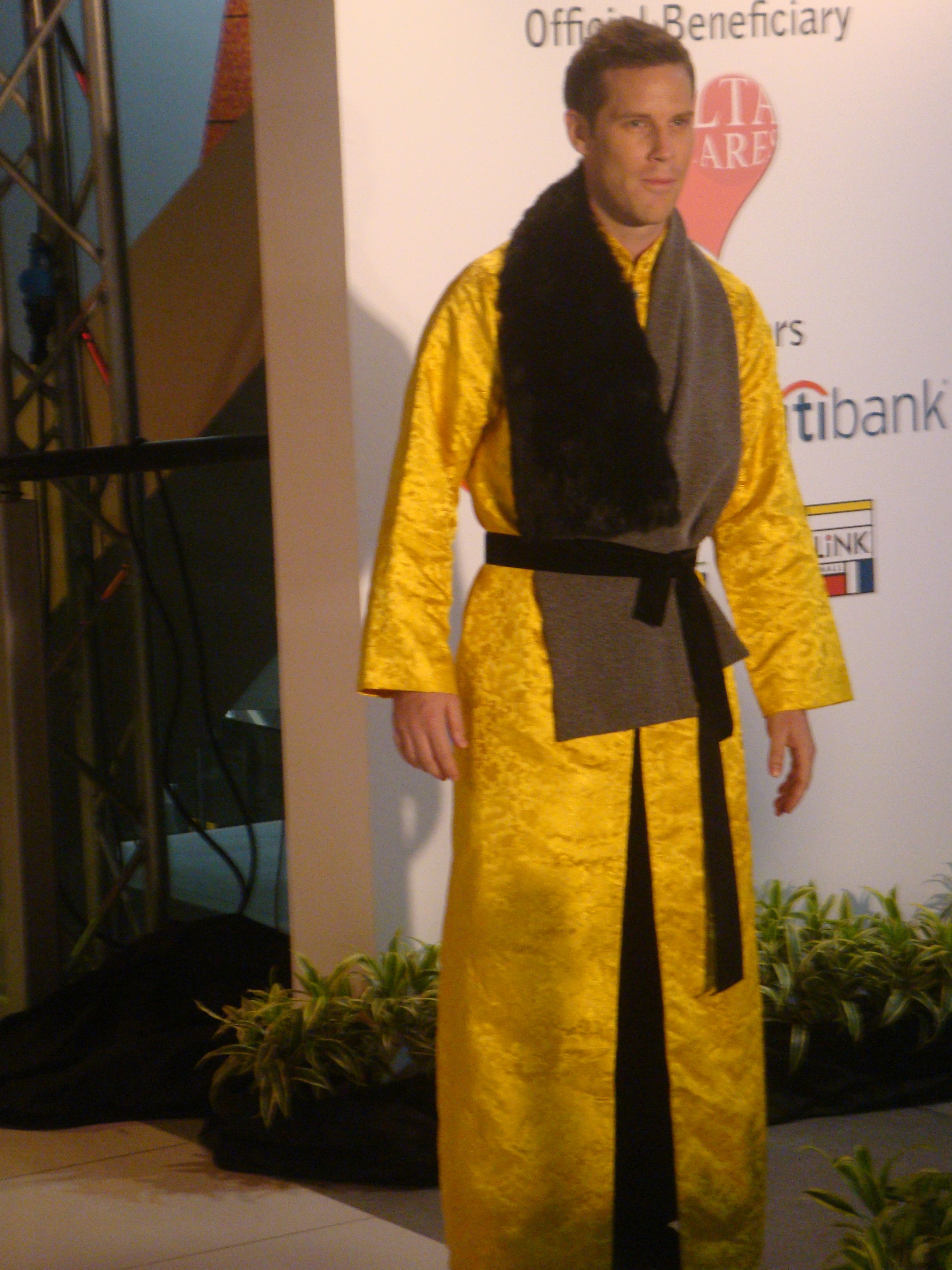 John Wilkinson, Singapore national footballer, walking on the ramp (which was actually above the middle track) in the Charity Runway event at Paya Lebar MRT Station during the Circle Line Discovery Open House (Stage 1 & 2).